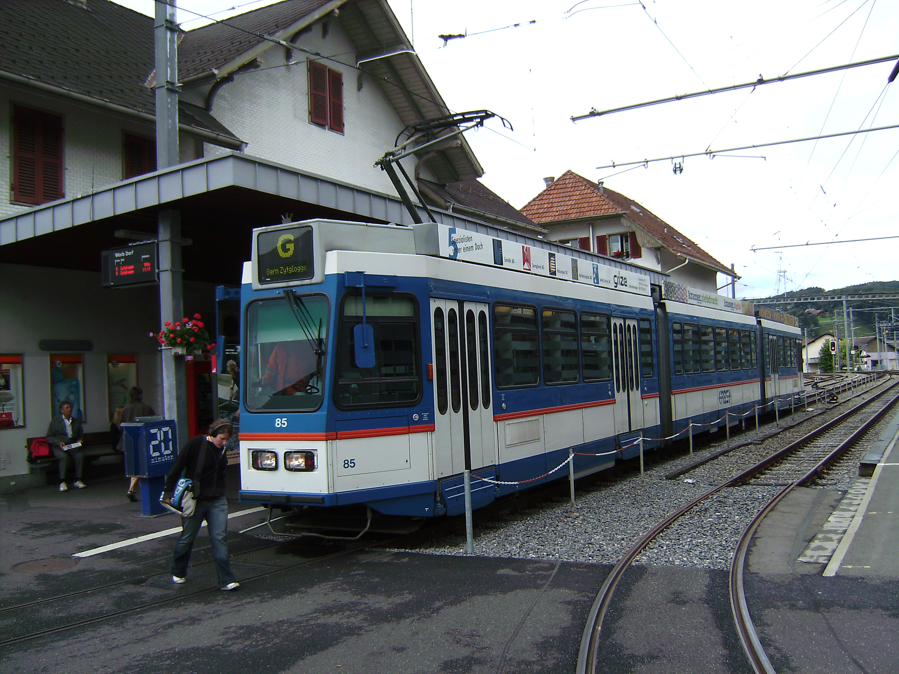 Tramway of the interurban tram line G (operated by Regionalverkehr Bern-Solothurn railways company) at the tram/railway station of Worb, Switzerland.